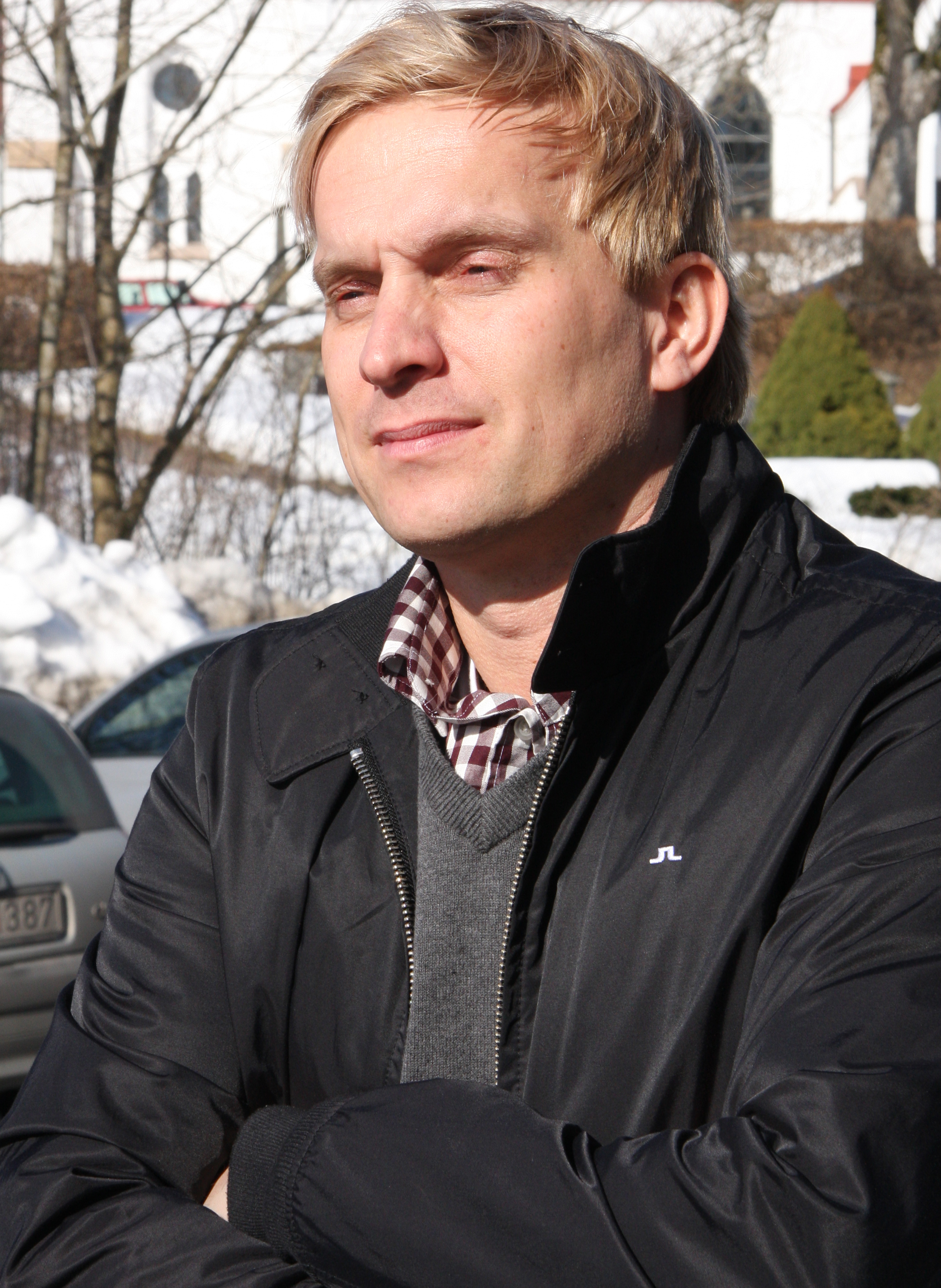 Swedish actor and former taekwondo champion Liam Norberg